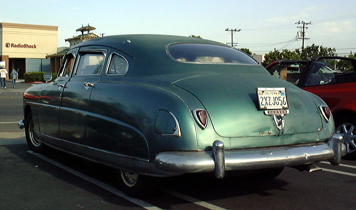 1950 Hudson Commodore. Year now checked with the owner and verified correct. Photo by User:Morven at the weekly Donut Derelicts car show in Huntington Beach, California on Saturday July 17, 2004.